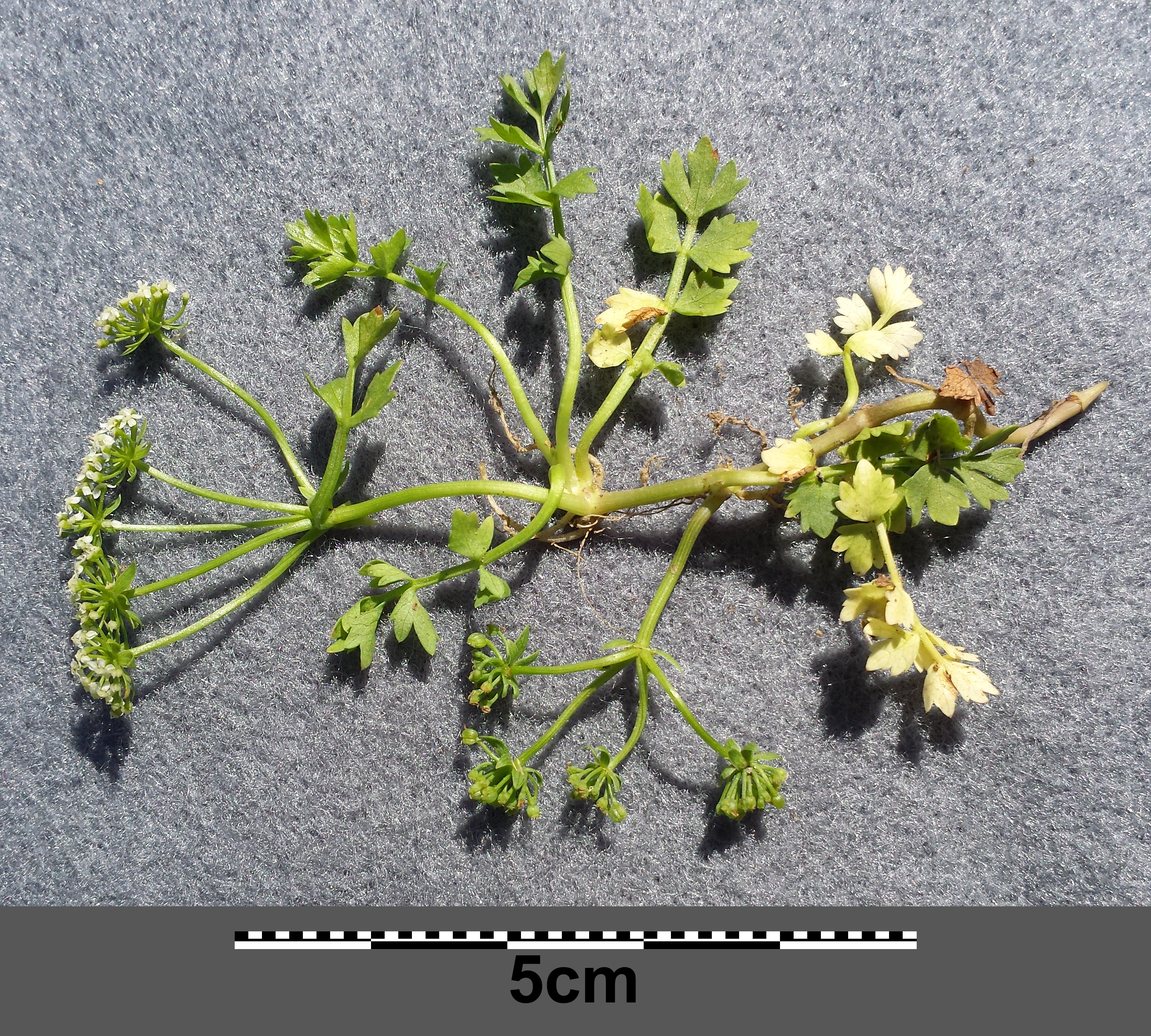 Whole plant Taxonym: Helosciadium repens ss Fischer et al. EfÖLS 2008 ISBN 978-3-85474-187-9 Location: Jedleseer Friedhof, Vienna-Floridsdorf - ca. 160 m a.s.l. Habitat: grave